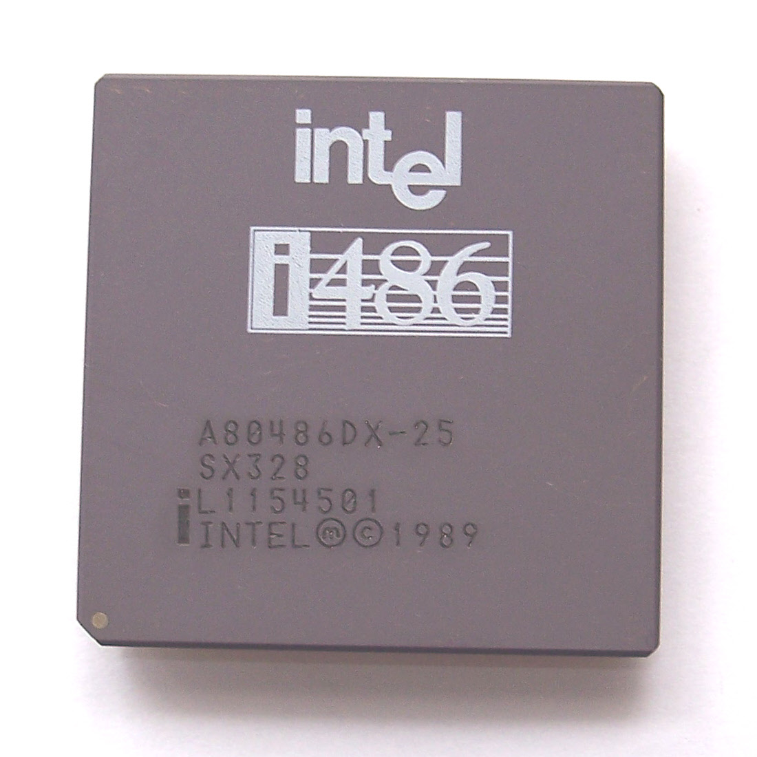 CPU Intel i486 DX 25 MHz SX328 from April 1991 USA CHMOS IV 173,345 mm2